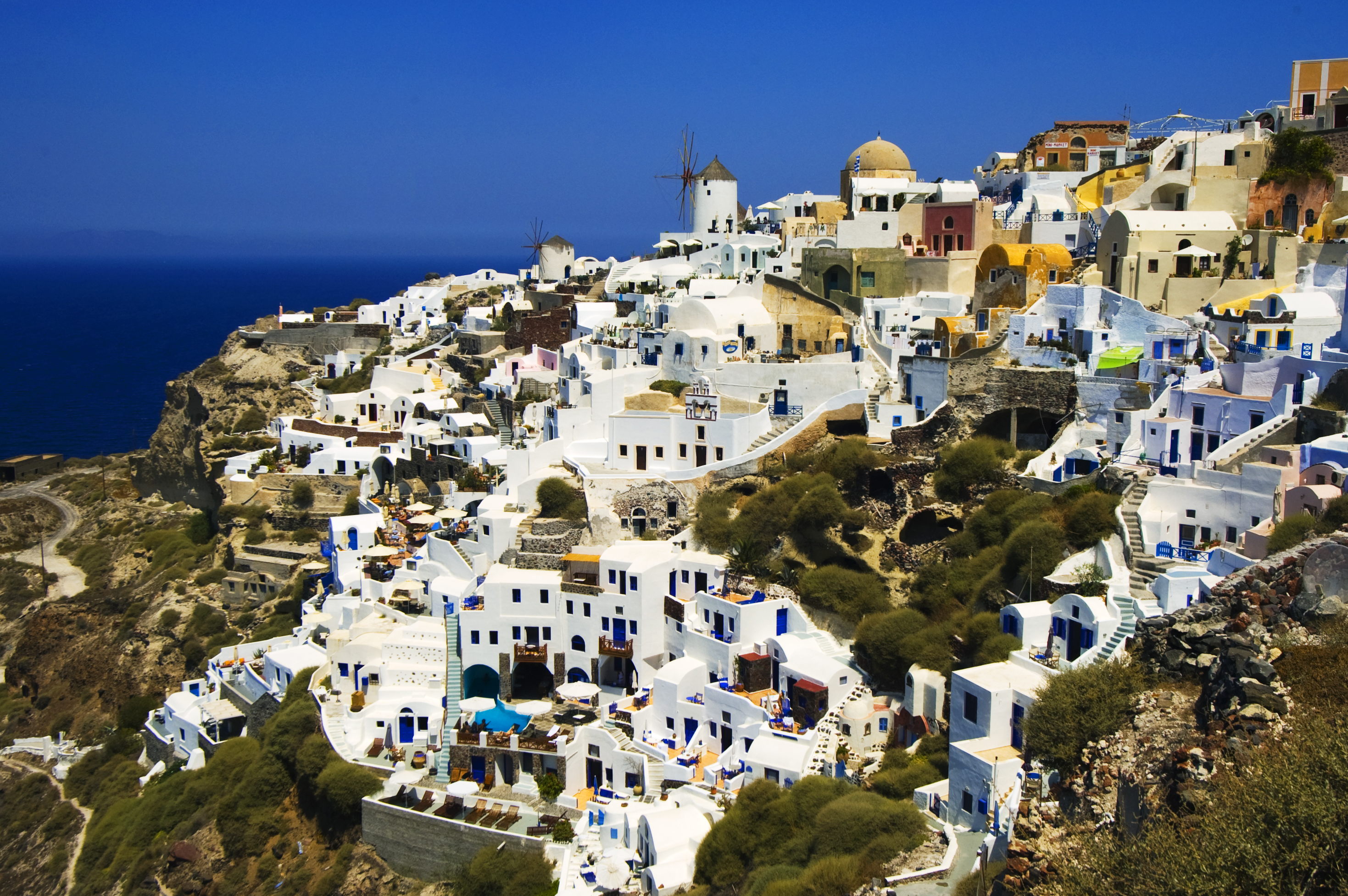 Oia, Greece